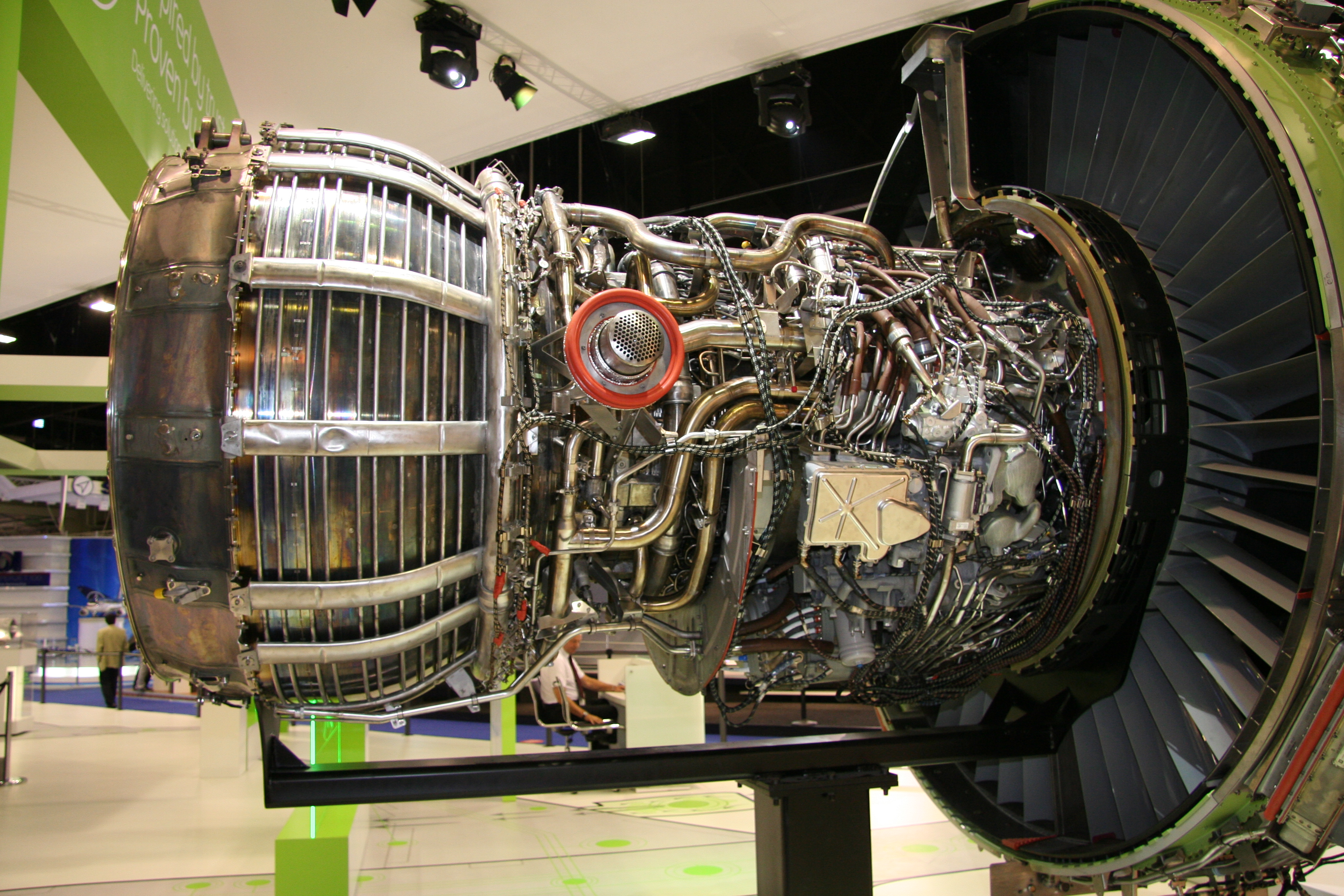 General Electric GEnx - Paris Air Show 2009